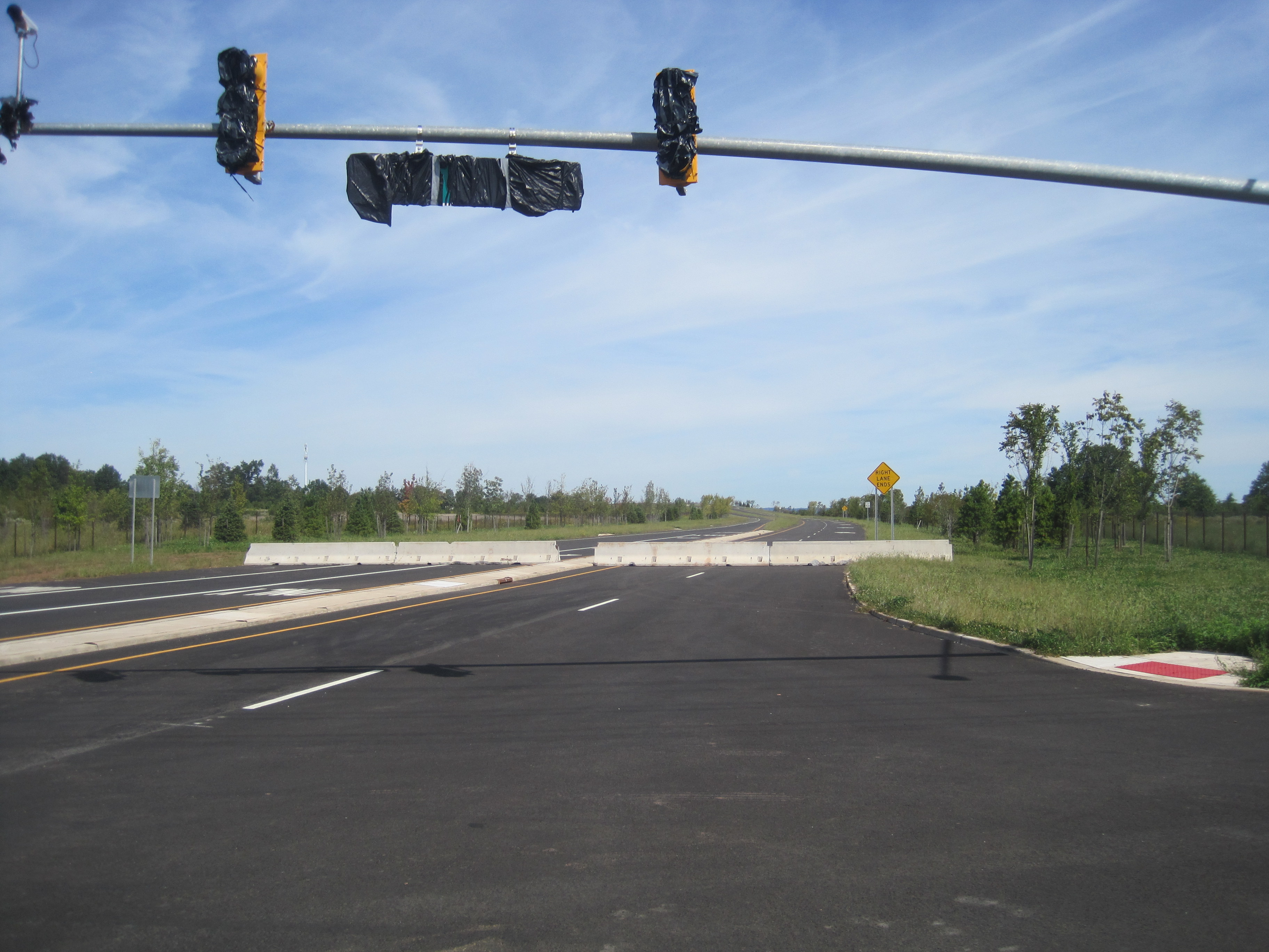 Photo of a section of constructed, but unused roadway set to become the US 206 Hillsborough Bypass.